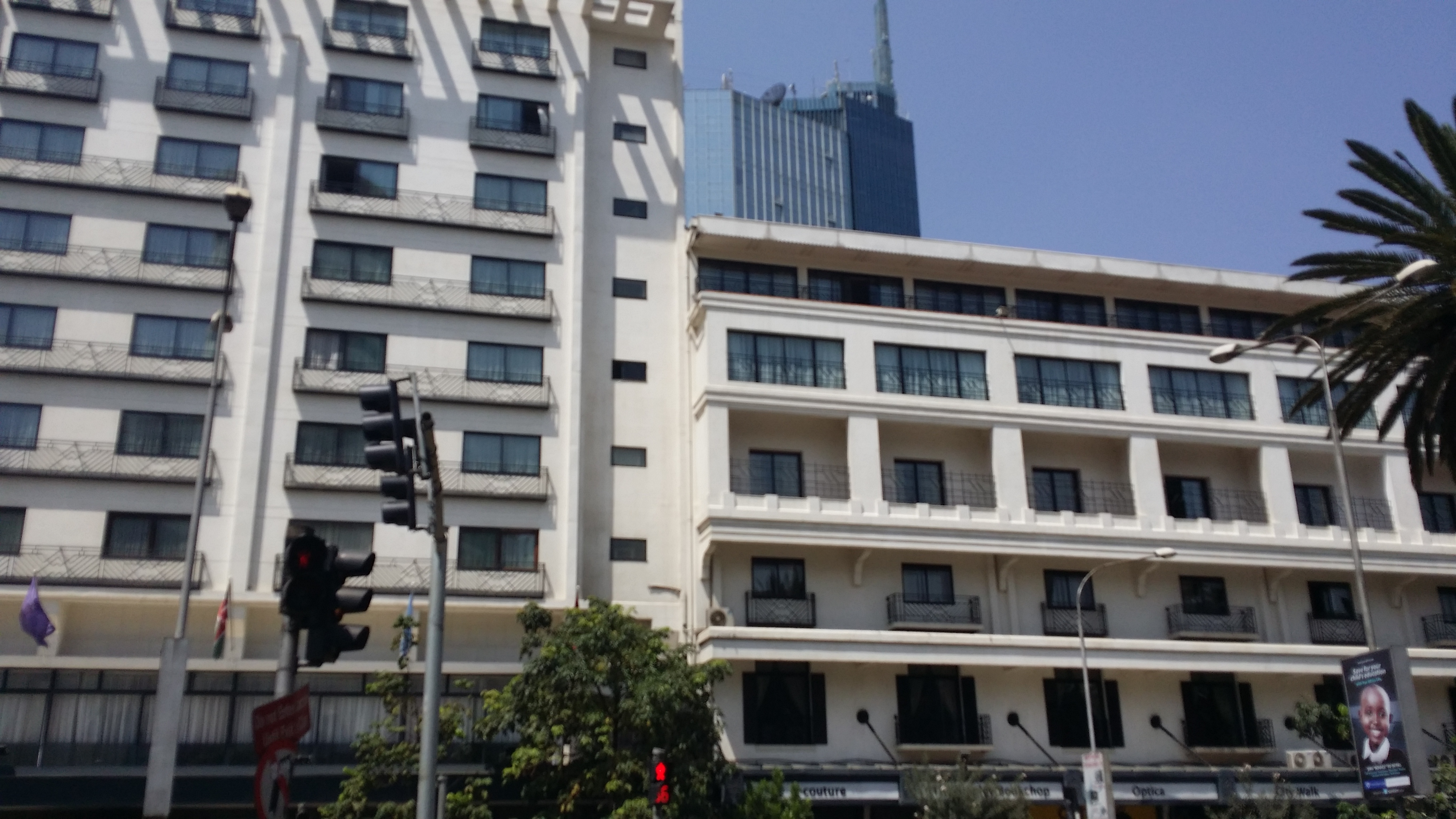 The Sarova Stanley